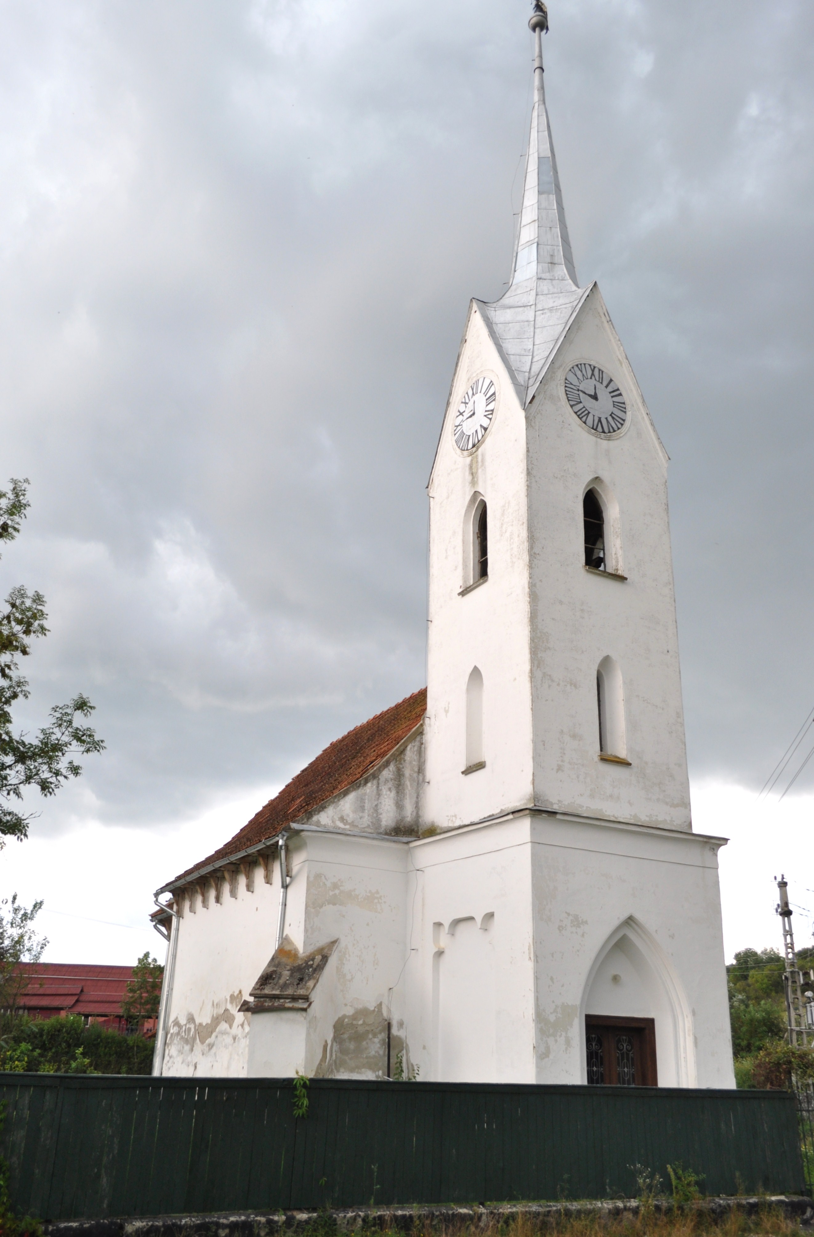 Protestant church in Năsal, Cluj countyRomână: Biserica reformată din Năsal, județul Cluj